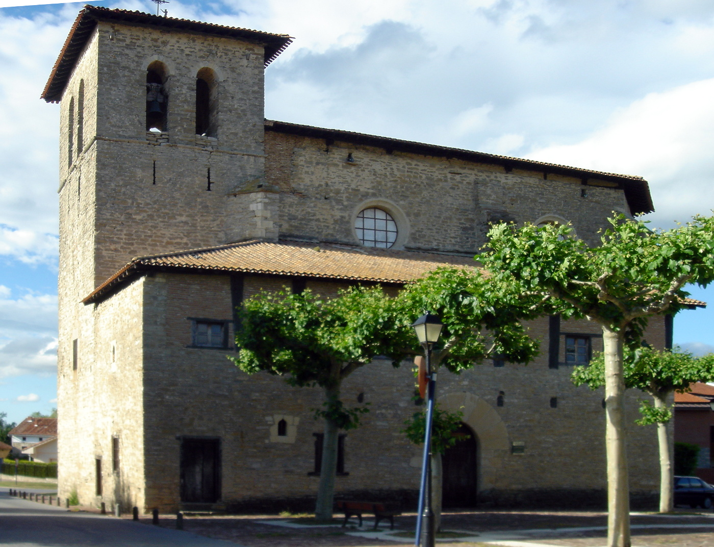 Lasarte (Vitoria-Gasteiz, Araba, Basque Country, Spain)